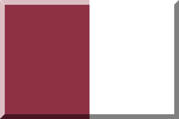 Amarantine and white rectangle